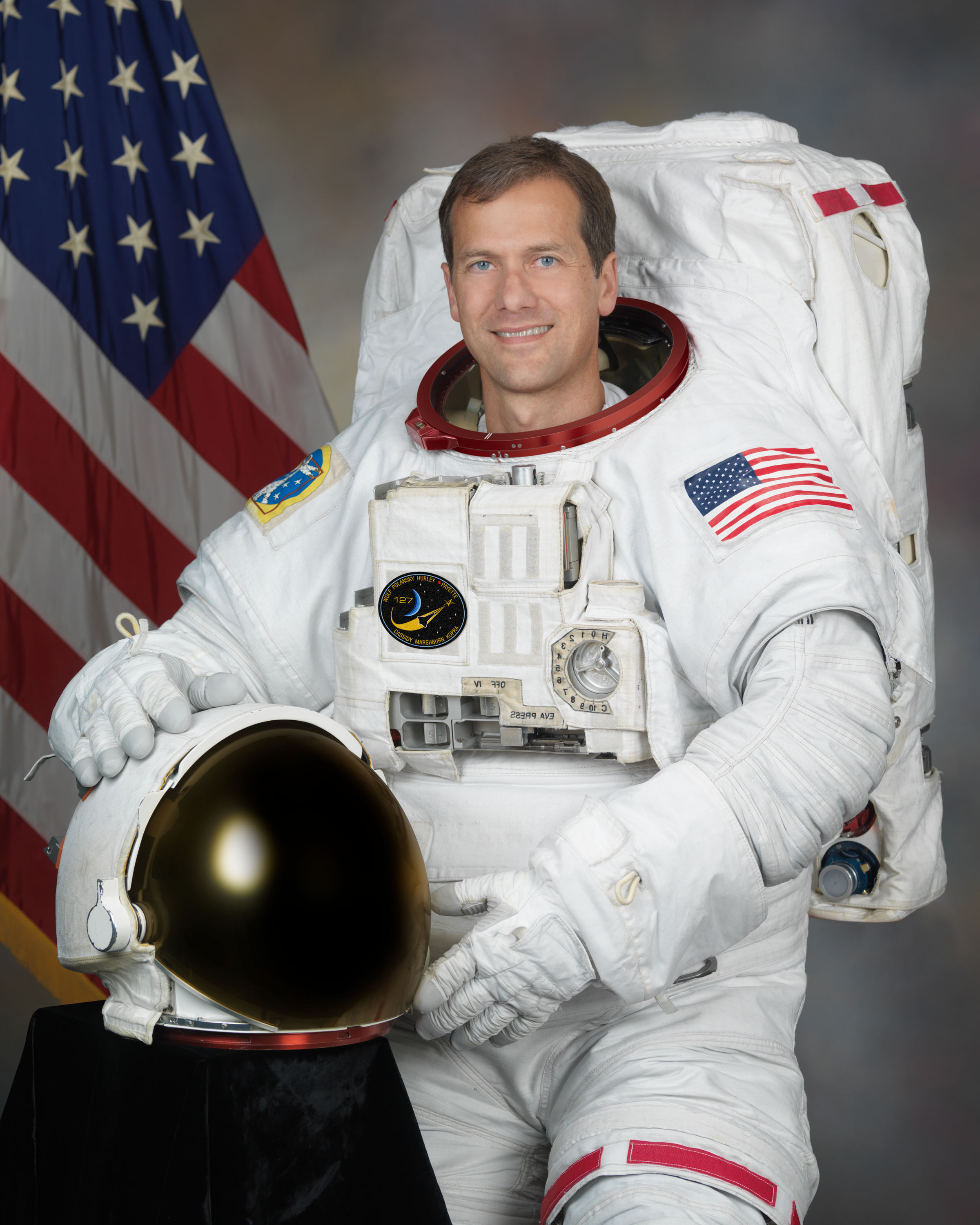 Astronaut Thomas H. Marshburn, mission specialist